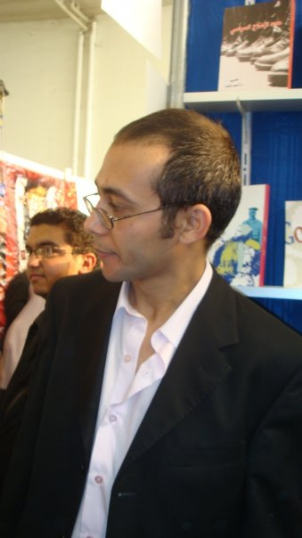 Ahmad Alaidy